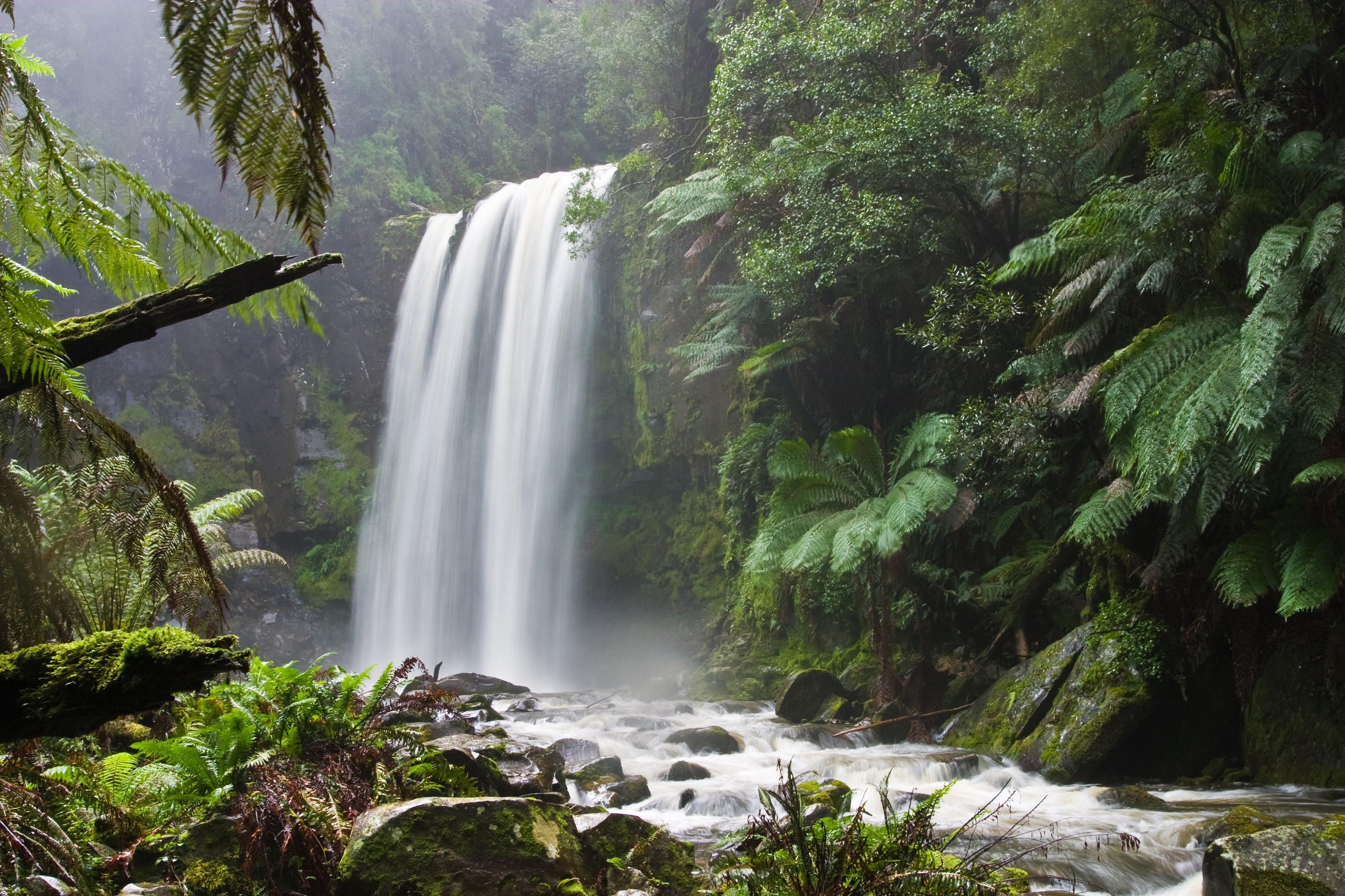 Hopetoun Falls, Beech Forest, near Otway National Park, Victoria, Australia. Taken with a Canon 10D and 17-40 f/4L lens.